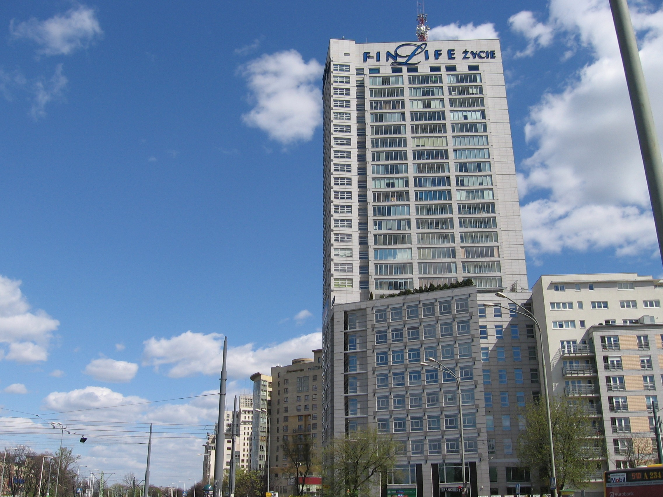 "Babka Tower", Warsaw, Poland